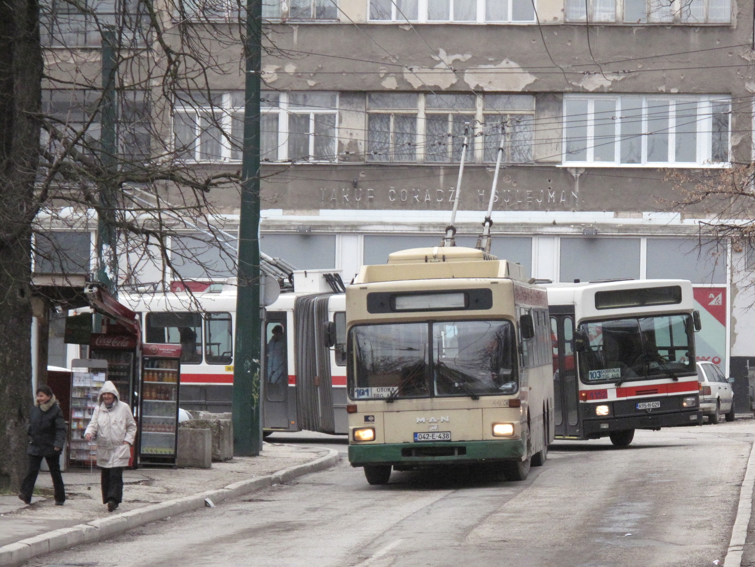 Two secondhand trolleybuses in Sarajevo, one ex-Solingen, Germany, and the other ex-St. Gallen, Switzerland.